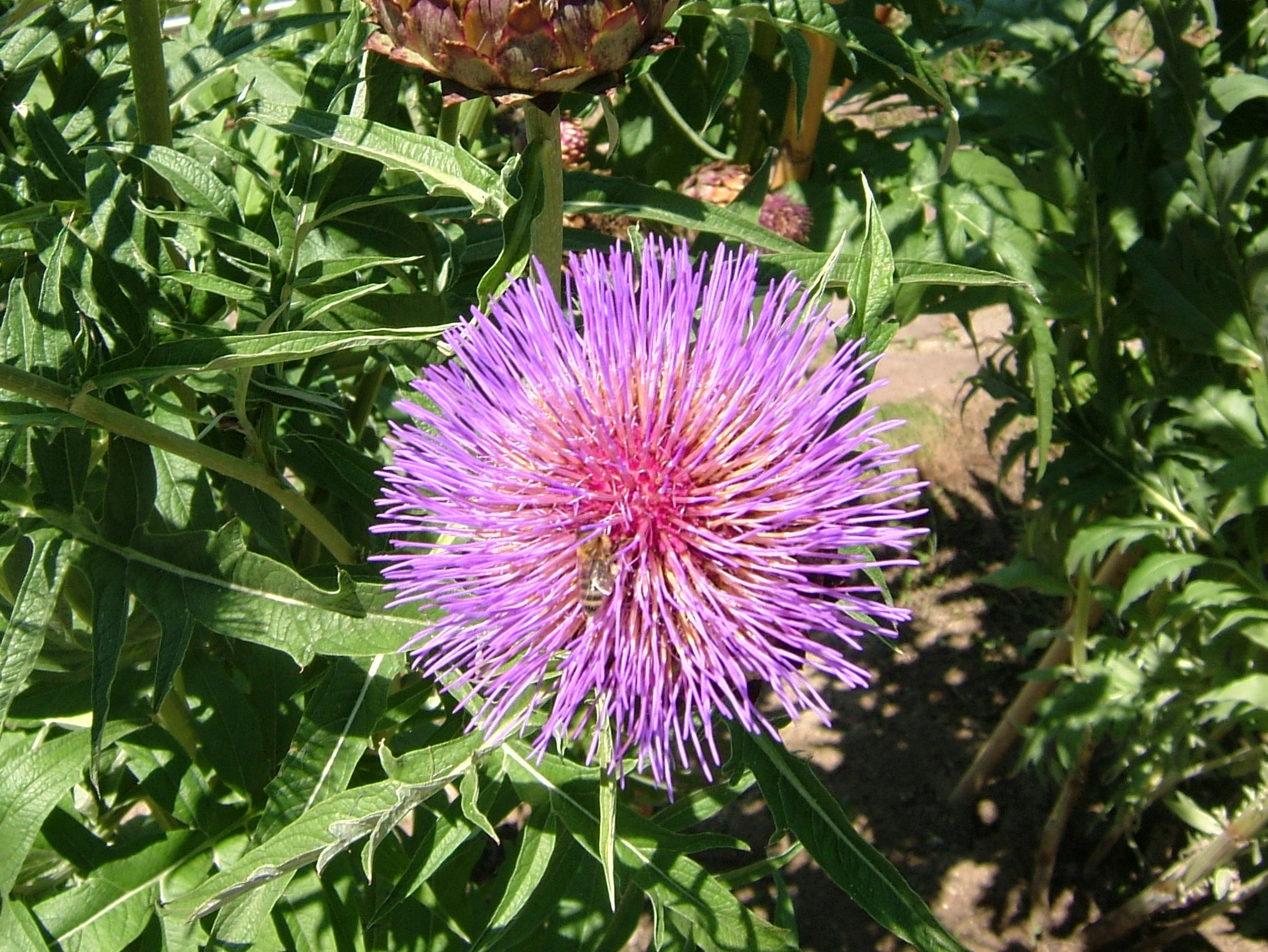 Botanical Garden Meran Water- and Teraces Gardens Cynara cardunculus Camera position and heading to be adapted